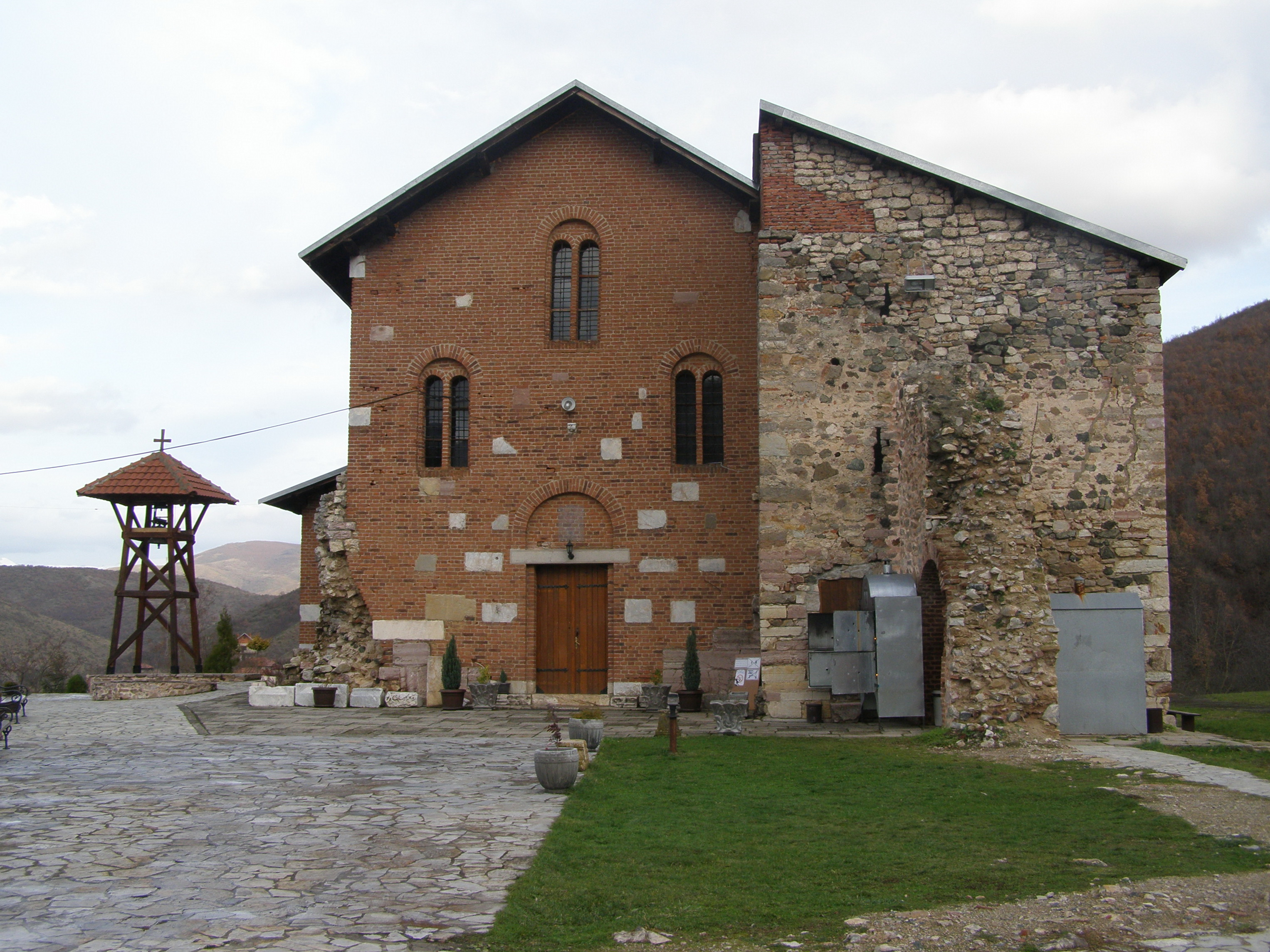 Church of the Banjska monastery, Kosovo